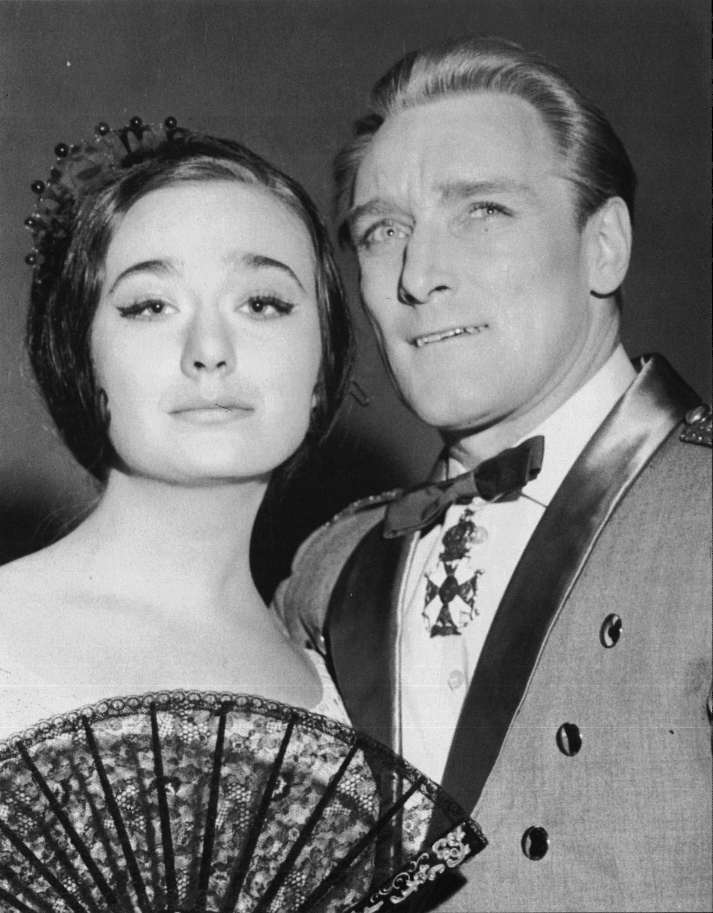 Publicity photograph of the Finnish actors Iris-Lilja Lassila and Åke Lindman.